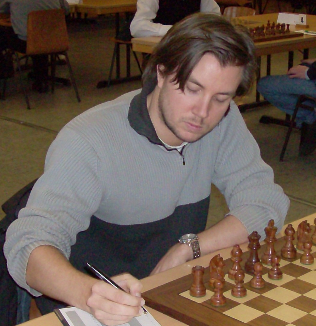 Leif Johannessen, chess grandmaster from Norway